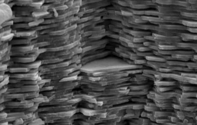 SEM of mother of pearl lamellae